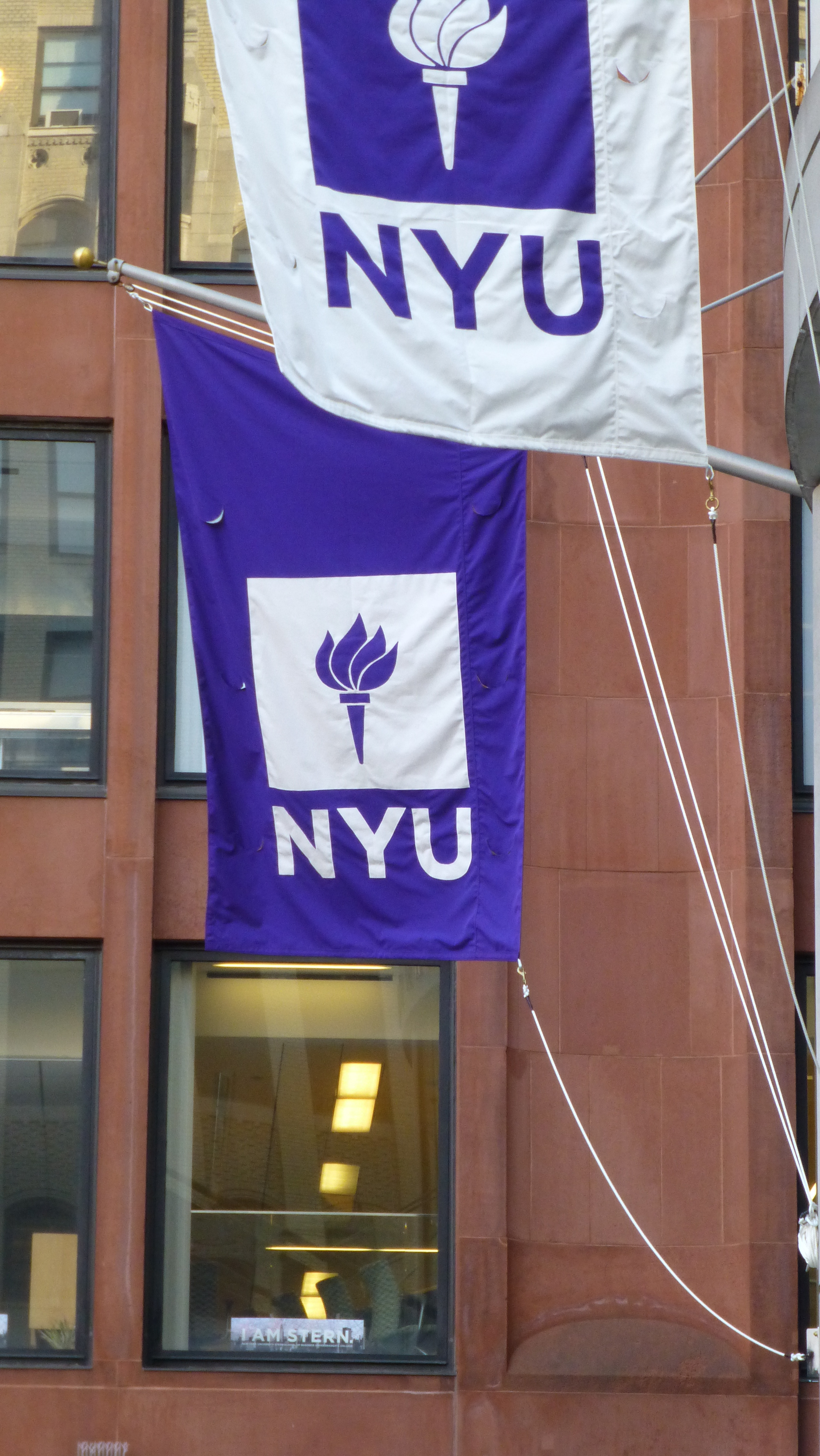 New York University